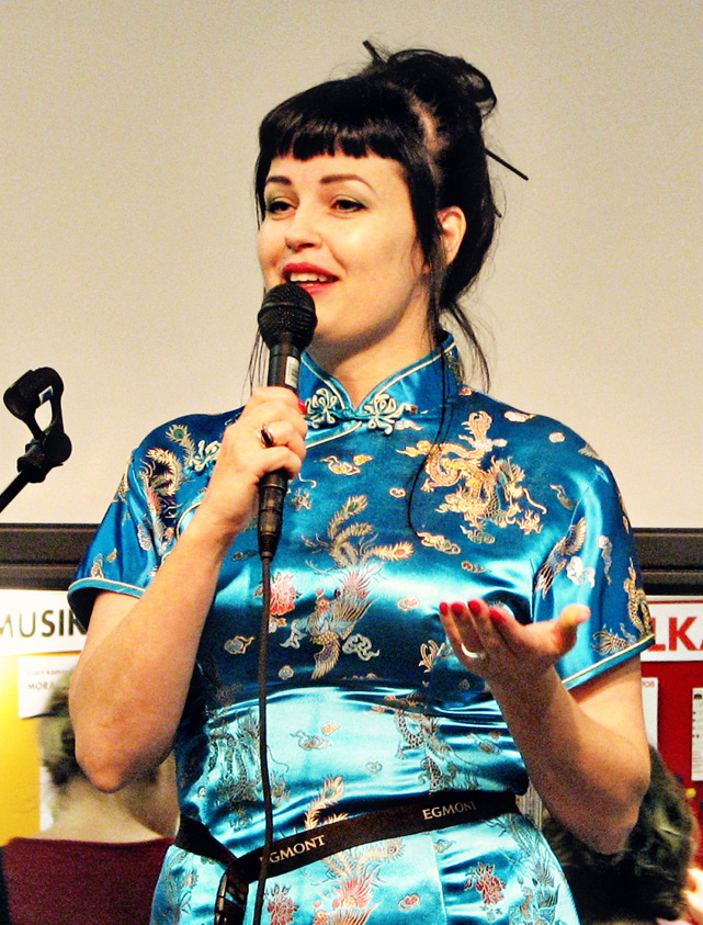 Author Jenny Holmlund at Bok & Biblioteksmässan in Gothenburg, Sweden 2007.